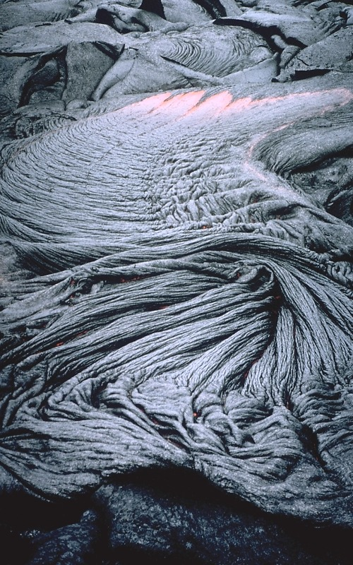 Close view of ropy texture forming on the surface of a pahoehoe flow at Kilauea Volcano, Hawai`i.